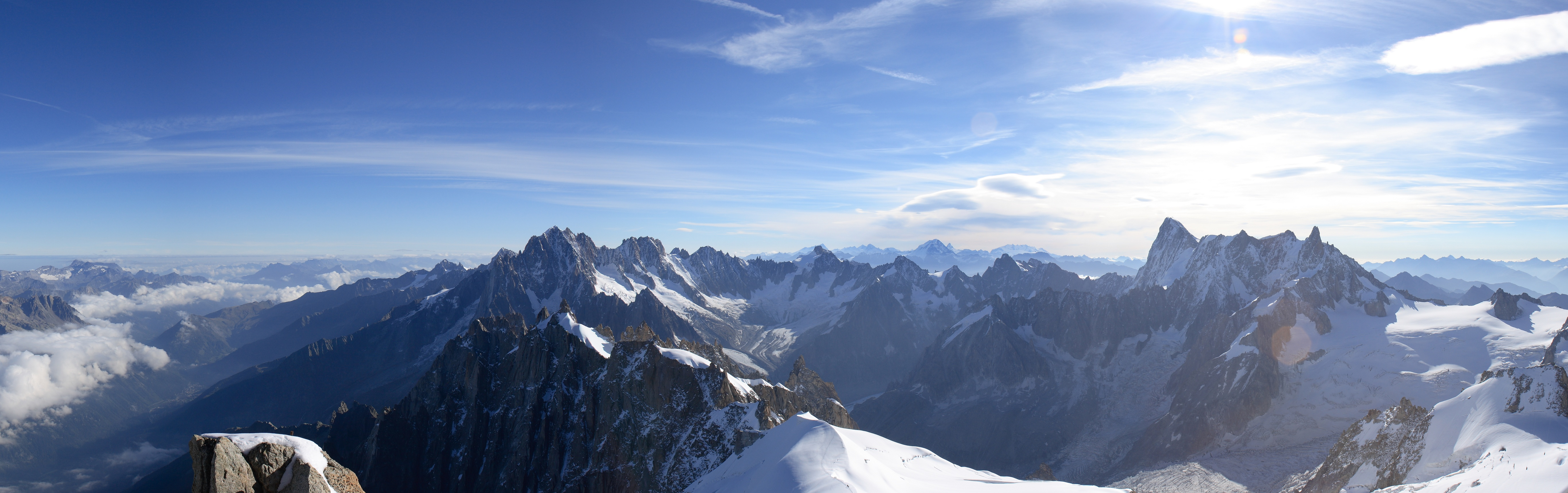 A panoramic view from top of Aiguille du Midi, looking toward north-east. The most remarkable summits are on the foreground the Aiguilles de Chamonix ; in the background, from left to right, the Aiguille Verte, the Grandes Jorasses and the Dent du Géant.